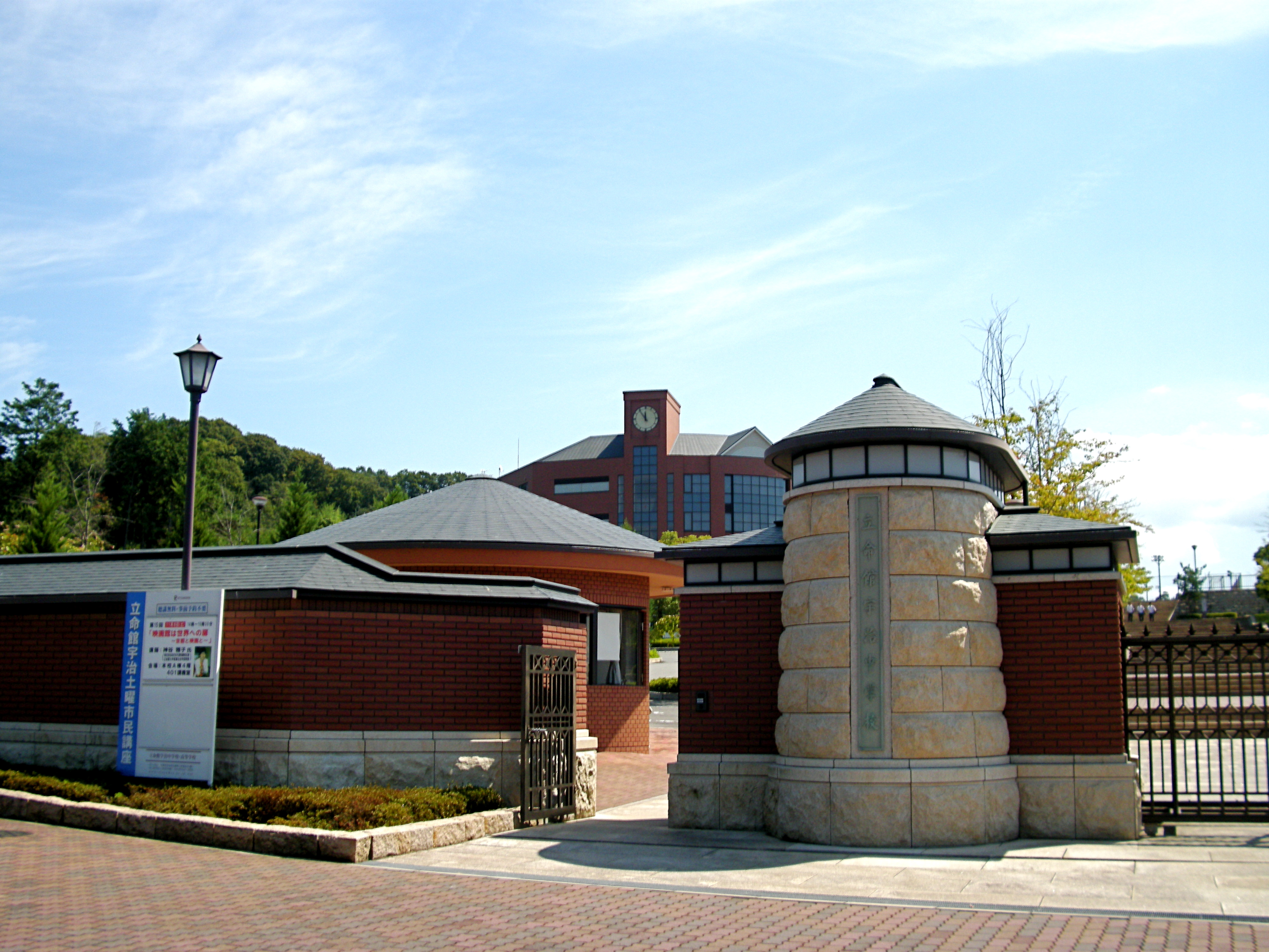 A View from Main Gate of Ritsumeikan Uji High School (Uji, Kyoto, Japan)